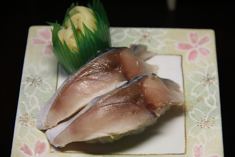 Shimesaba, sushi